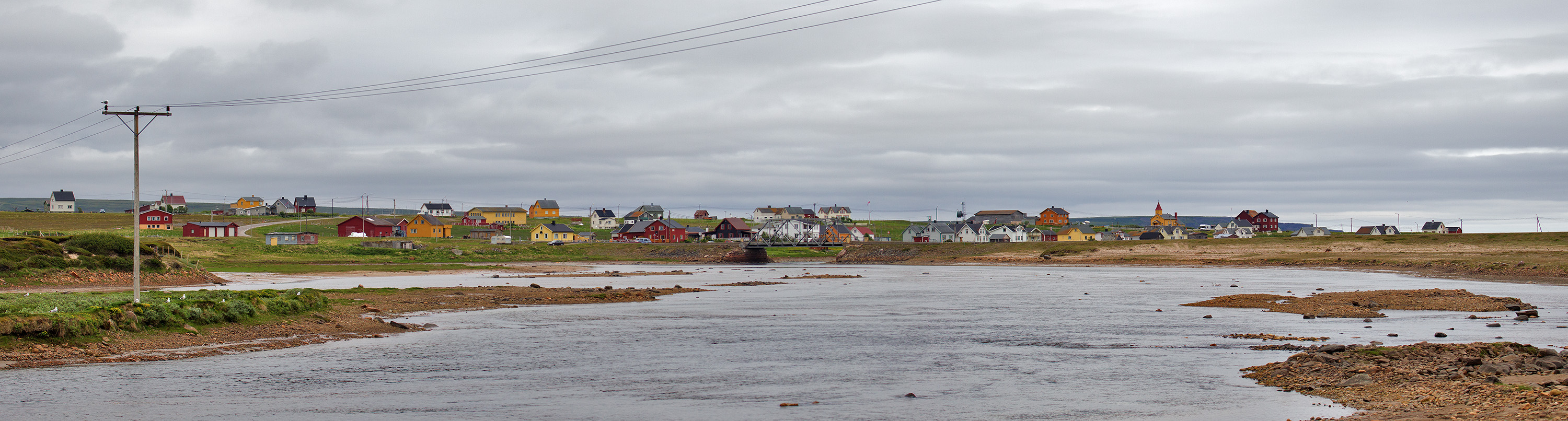 Skallelv is a village by the Varangerfjord, near the town of Vadsø in Finnmark (Norway)